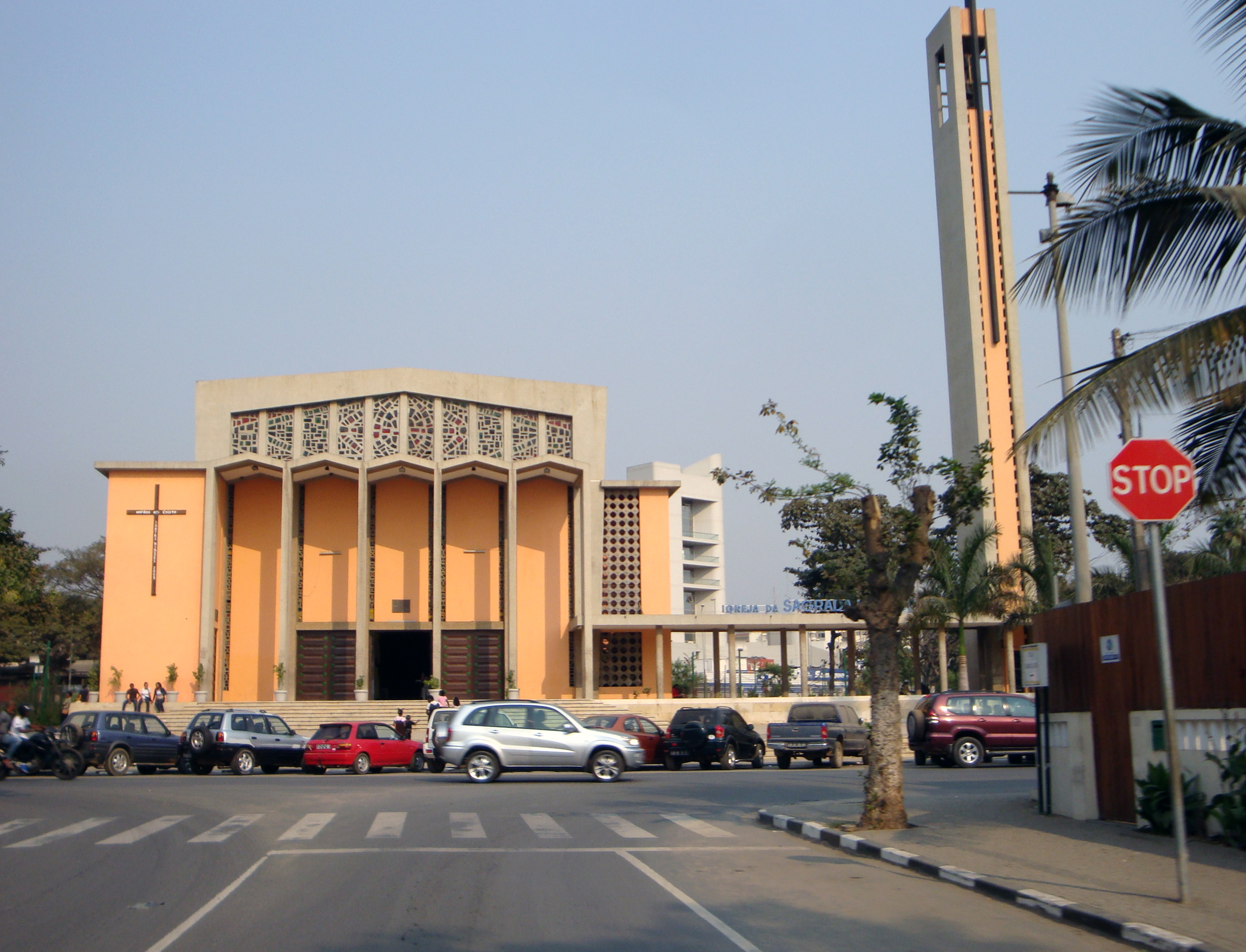 Modernist Sagrada Família Church in Luanda, Angola